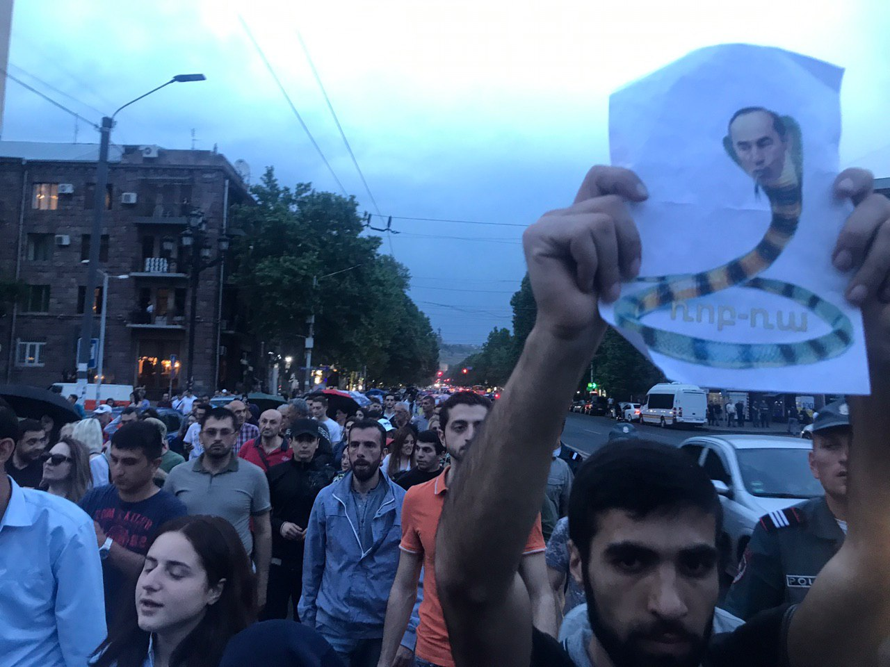 Protest against order of the Court of general jurisdiction of Yerevan to free Robert Kocharyan on bail from pre-trial detention. May 18, 2019, Yerevan.